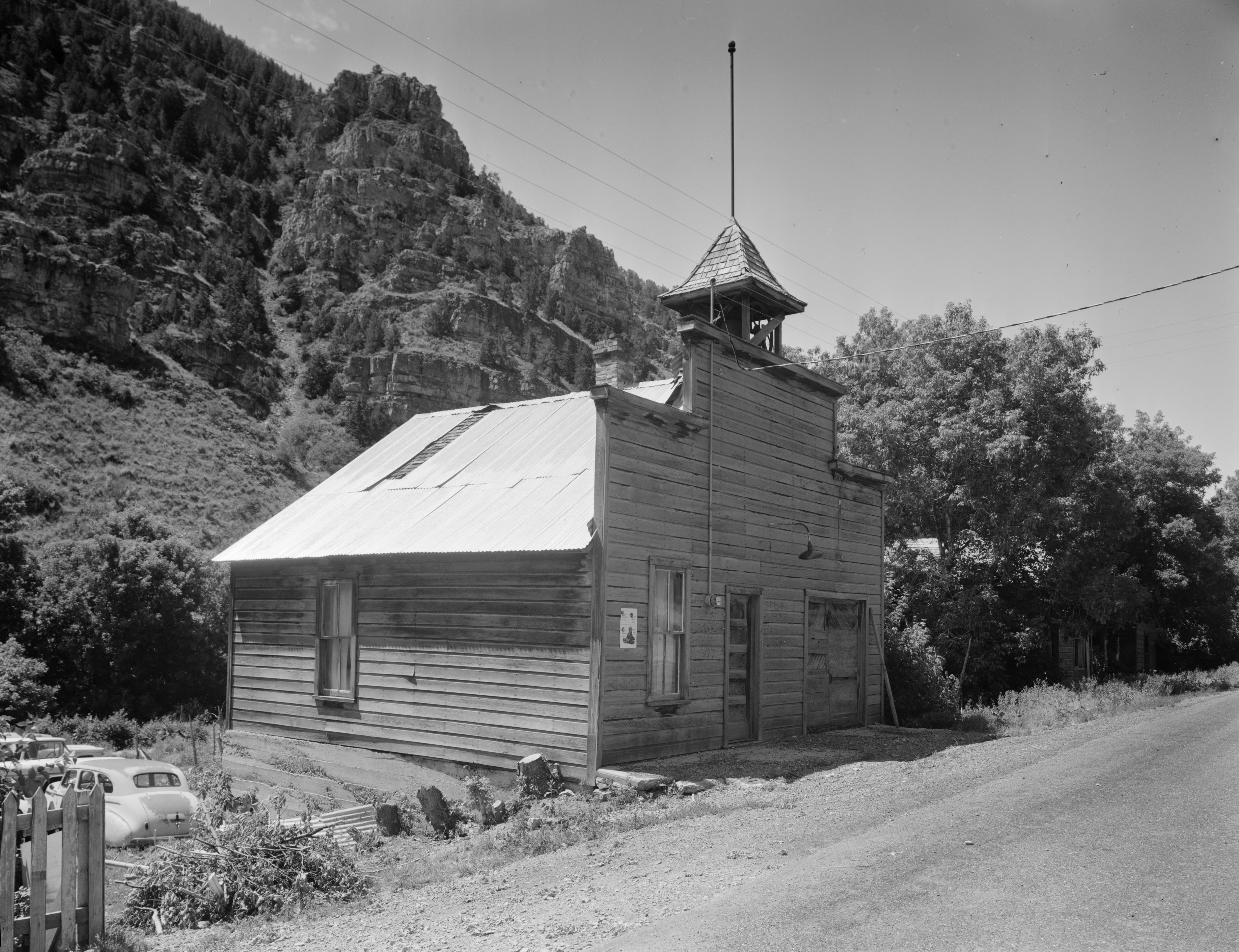 Front of the town hall in Ophir, Utah, United States. Built in 1870 and located at 43 S. Main Street, the town hall is listed on the National Register of Historic Places.